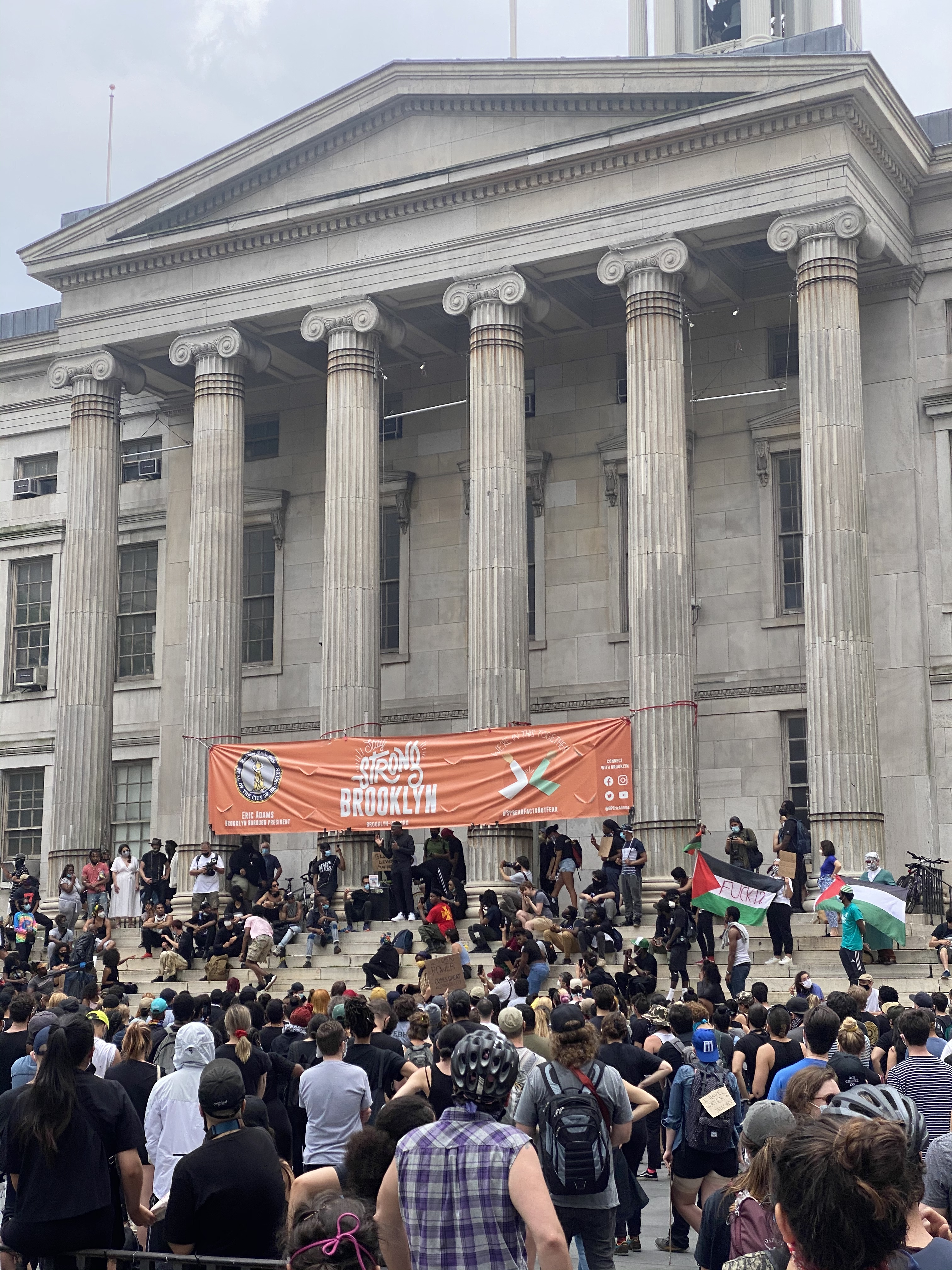 George Floyd protest in Brooklyn, New York City on June 5, 2020